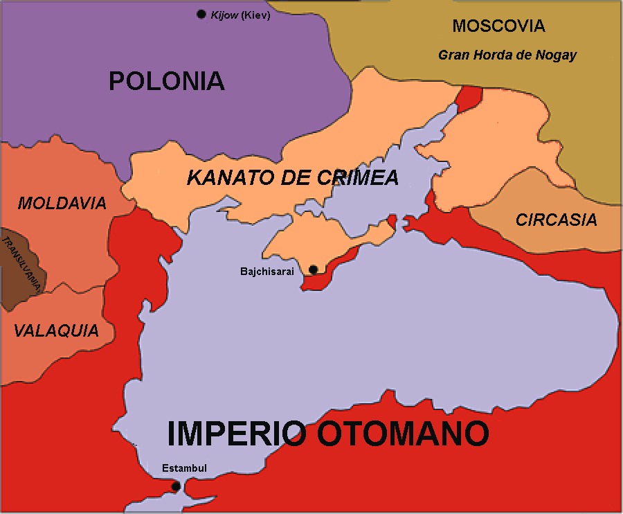 Derivated work. Spanish translation of the original "Crimean Khanate 1600.gif", already in commons.